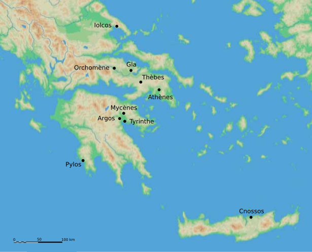 Location of the main mycenaean sites.